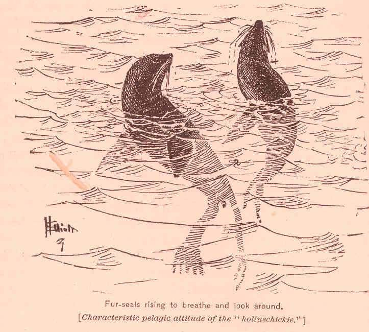 Fur-Seals rising to breathe and look around Characteristic pelagic attitude of the 'holluschickie' Subject: Southern fur seals Tag: Aquatic Mammals